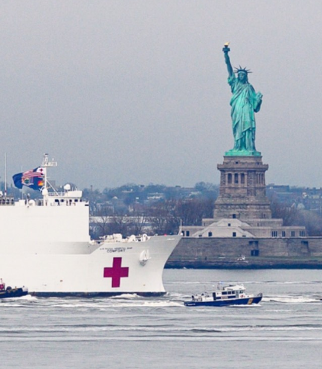 The USNS Comfort hospital ship arriving in the New York Harbor to assist with the COVID-19 outbreak.